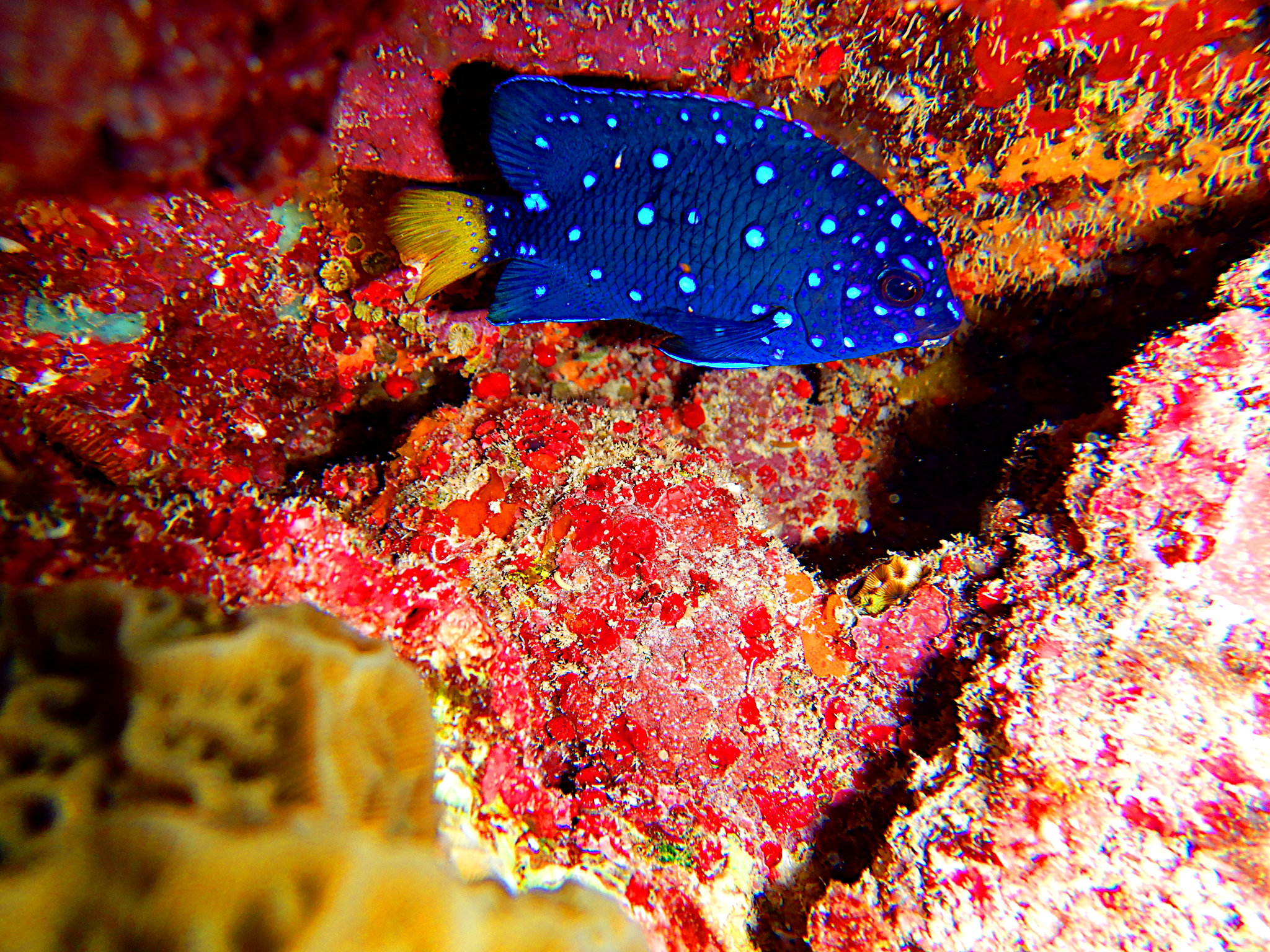 Yellowtail Damselfish (Microspathodon chrysurus) near Lagún Beach, Curaçao.